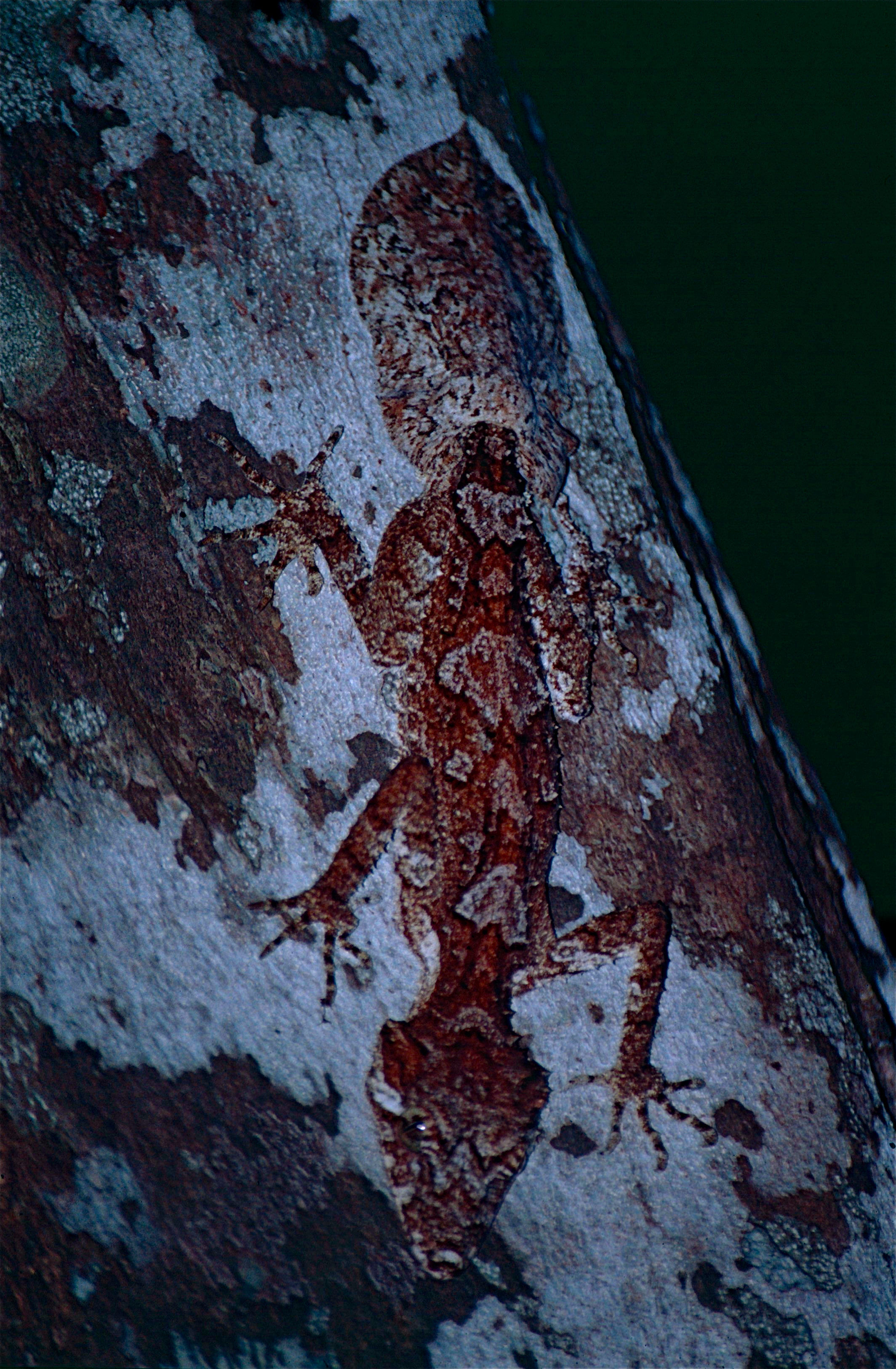 Lake Eacham, Crater Lakes NP, North Yungaburra, Queensland, AUSTRALIA Scanned Slide from Nov 2000